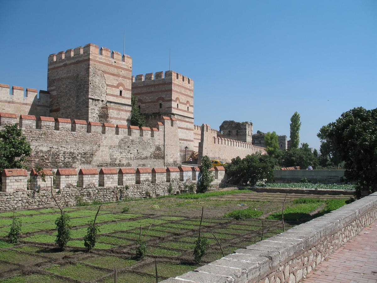 The Theodosian Walls in Constantinople. Second military gate(Deuterou or Belgrade gate).